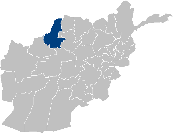 Location map for Badakhshan Province in Afghanistan. Original map source: Image:Afghanistan_provinces_blank.png